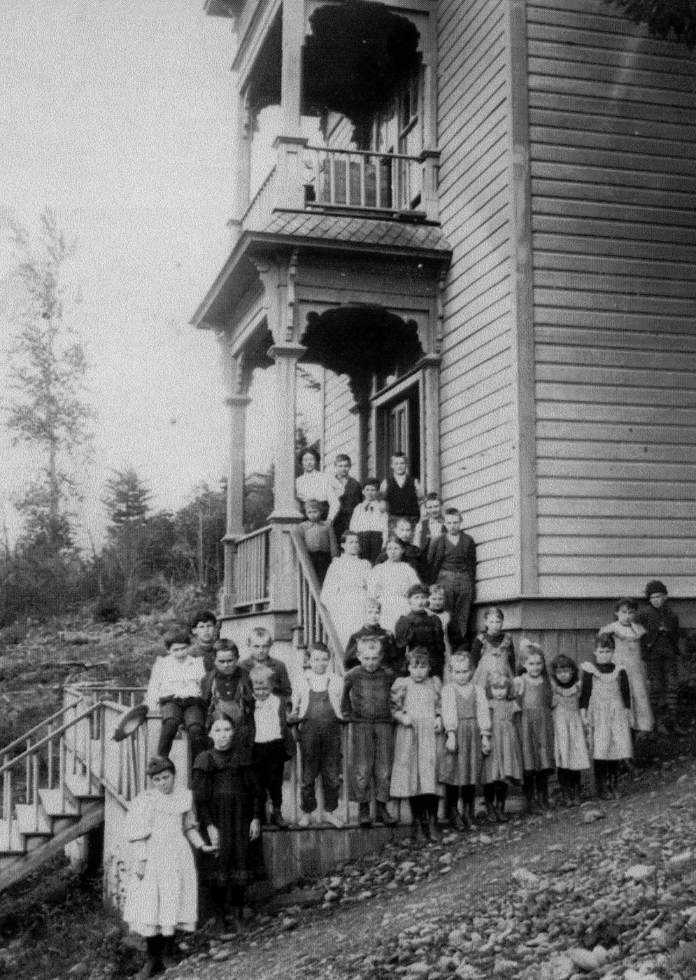 By 1894 Bridal Veil was also home to a school.